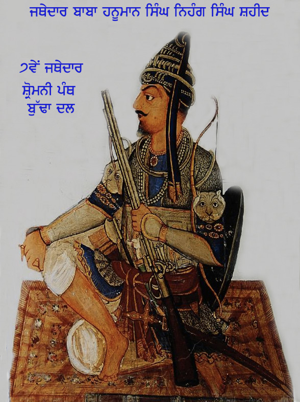 Photo of Baba Hanuman Singh Shaheed